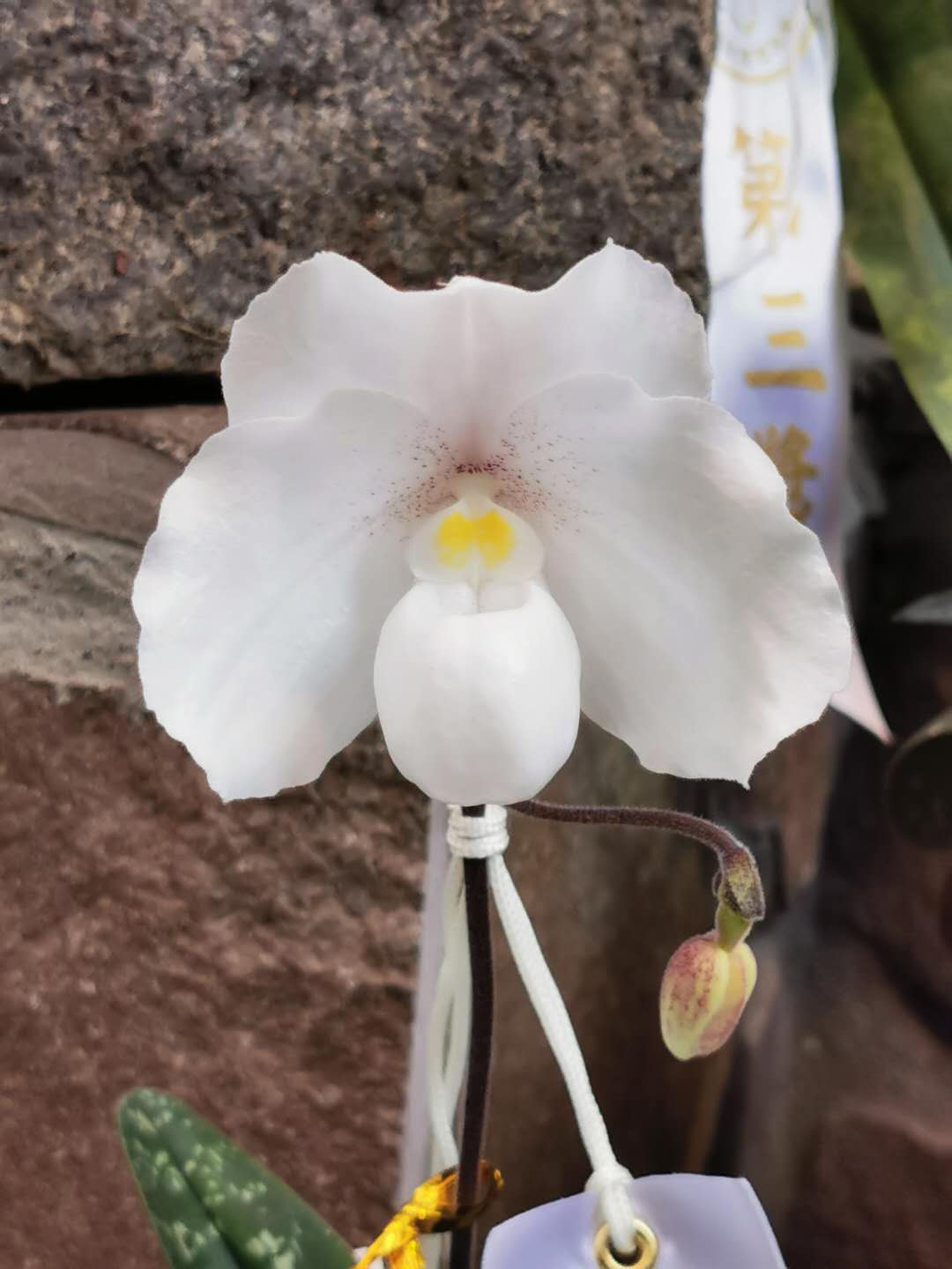 Paphiopedilum niveum. National Museum of Natural Science, Taichung, Taiwan.